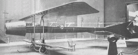 The Coandă-1910 was the first aircraft built with a turbine powerplant which compressed and heated air, and expelled it rearward for thrust. It was constructed by Romanian inventor Henri Coandă and exhibited by him at the Second International Aeronautical Exhibition in Paris in October 1910. In the 1950s, Coandă began to claim that this aircraft was the first jet, and that it flew once and crashed at the French Army airfield Issy-les-Moulineaux on the outskirts of Paris. Some aviation historians agreed, and some disputed his claim.